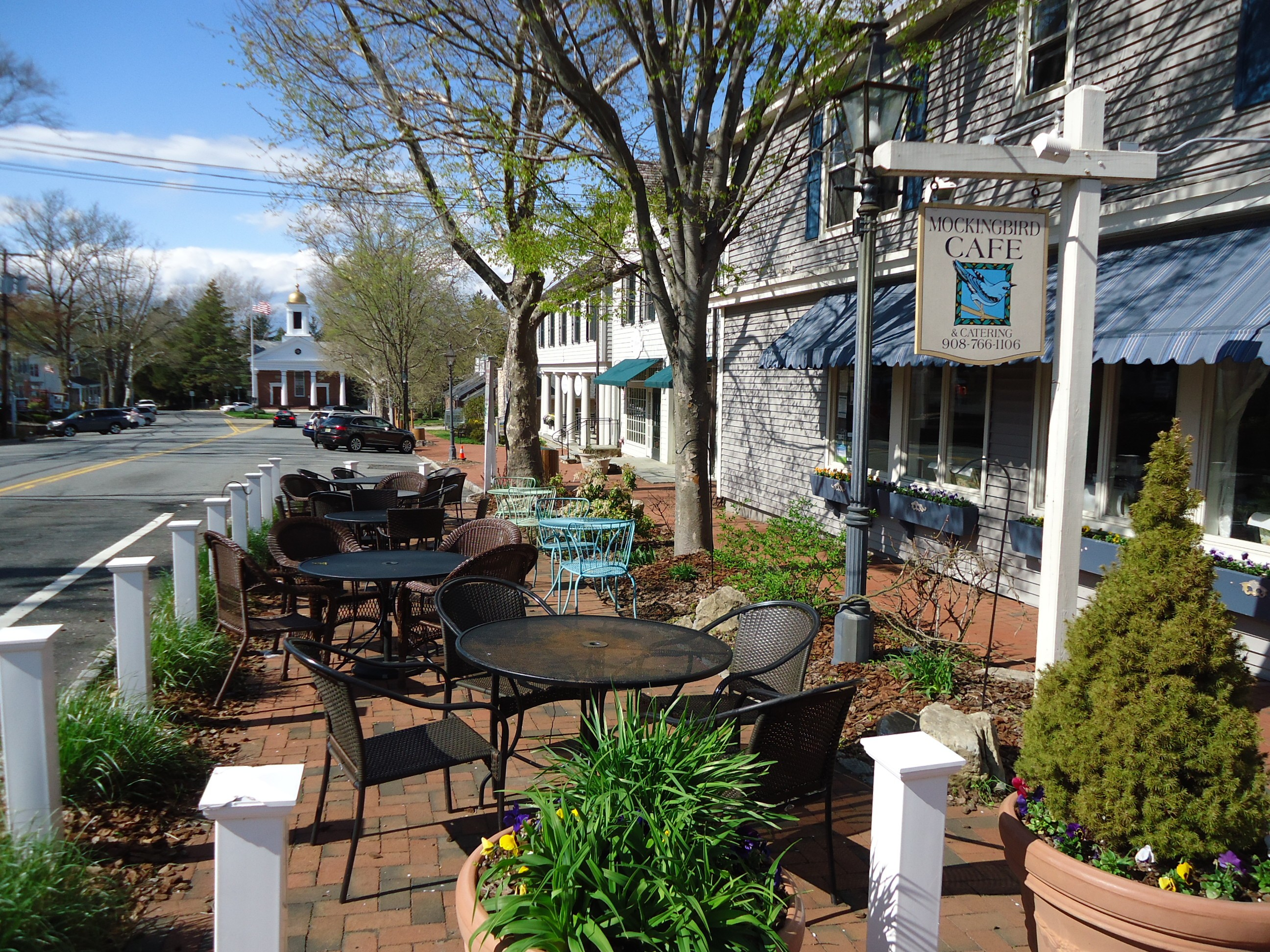 Street scene with planters and shops in Basking Ridge, New Jersey.